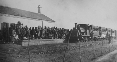 photograph of Stephenson locomotive No. 3 with train at Xugezhuang in 1882 一辆由四轮木制客车和货车厢以及3号斯蒂芬森“ogee” 水柜机车牵引的火车停靠在胥各庄站。